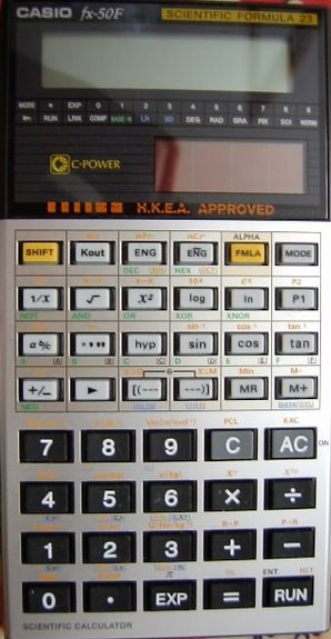 Casio fx-50F Taken by cY(上傳者攝影), 29 December, 2005